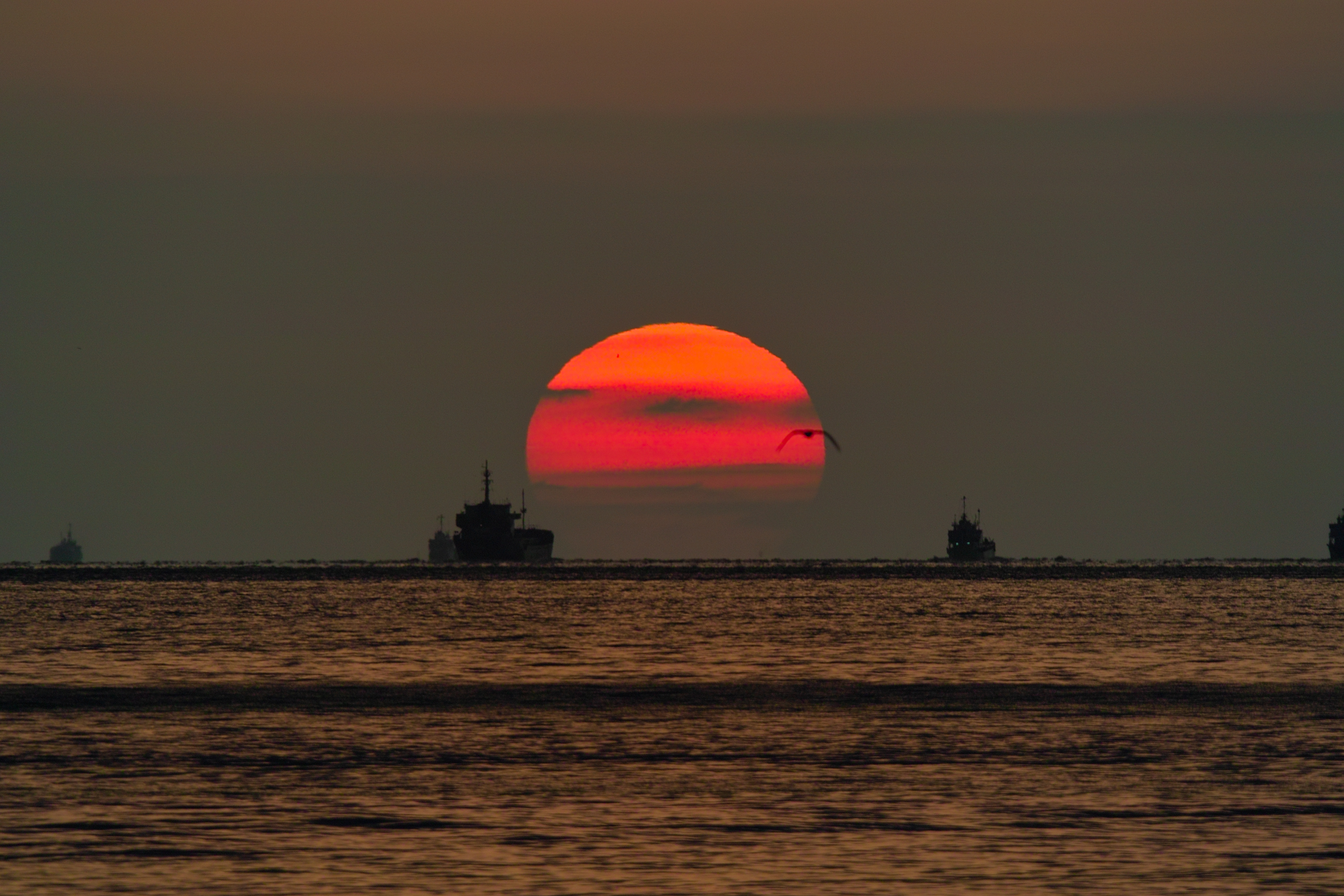 A seagull flying to the setting sun. SD15 with 50-500 at 500mm ISO100 f9.0 1/50secLonely Seagull